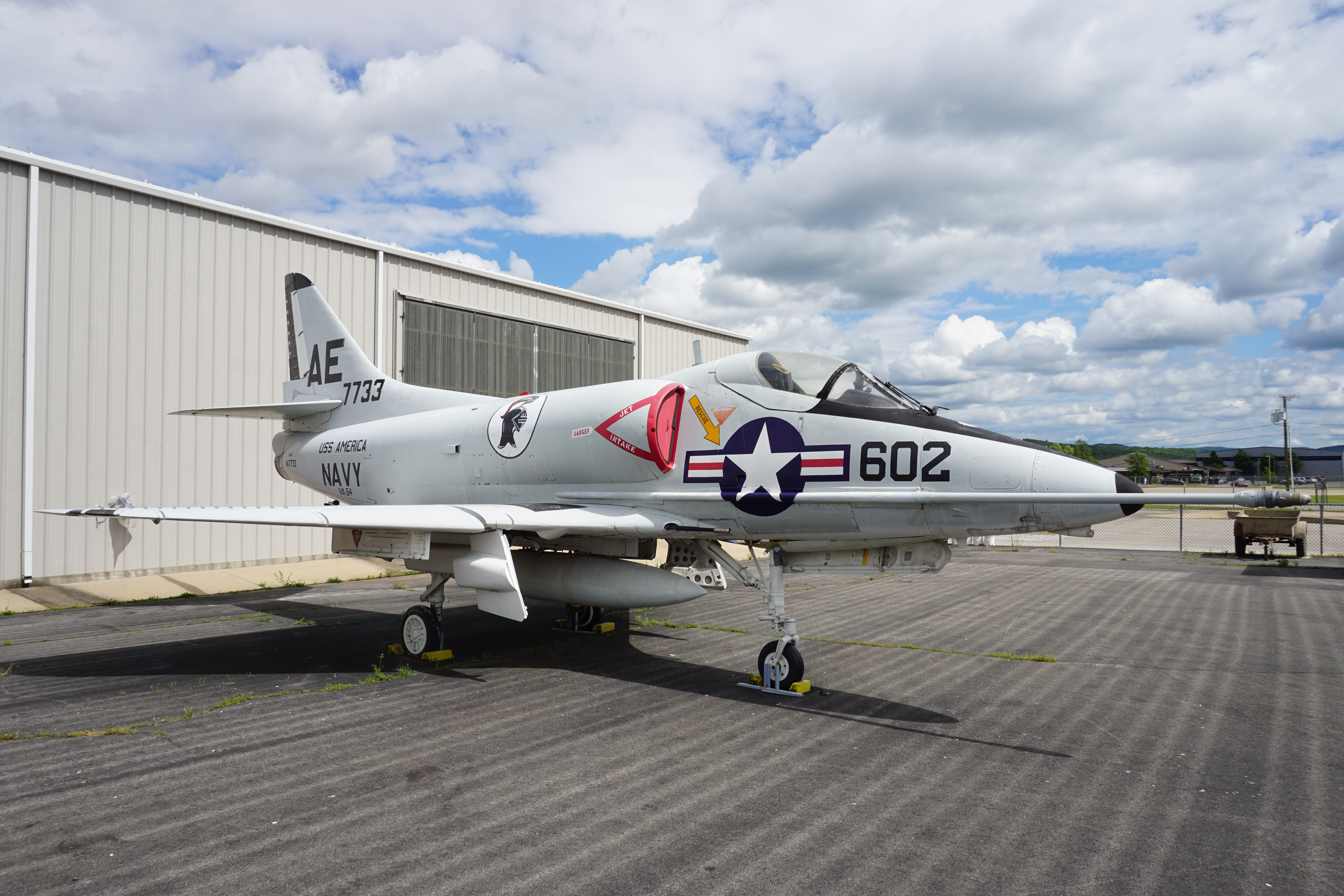 A Douglas A-4 Skyhawk at the Arkansas Air & Military Museum in Fayetteville, Arkansas (United States).